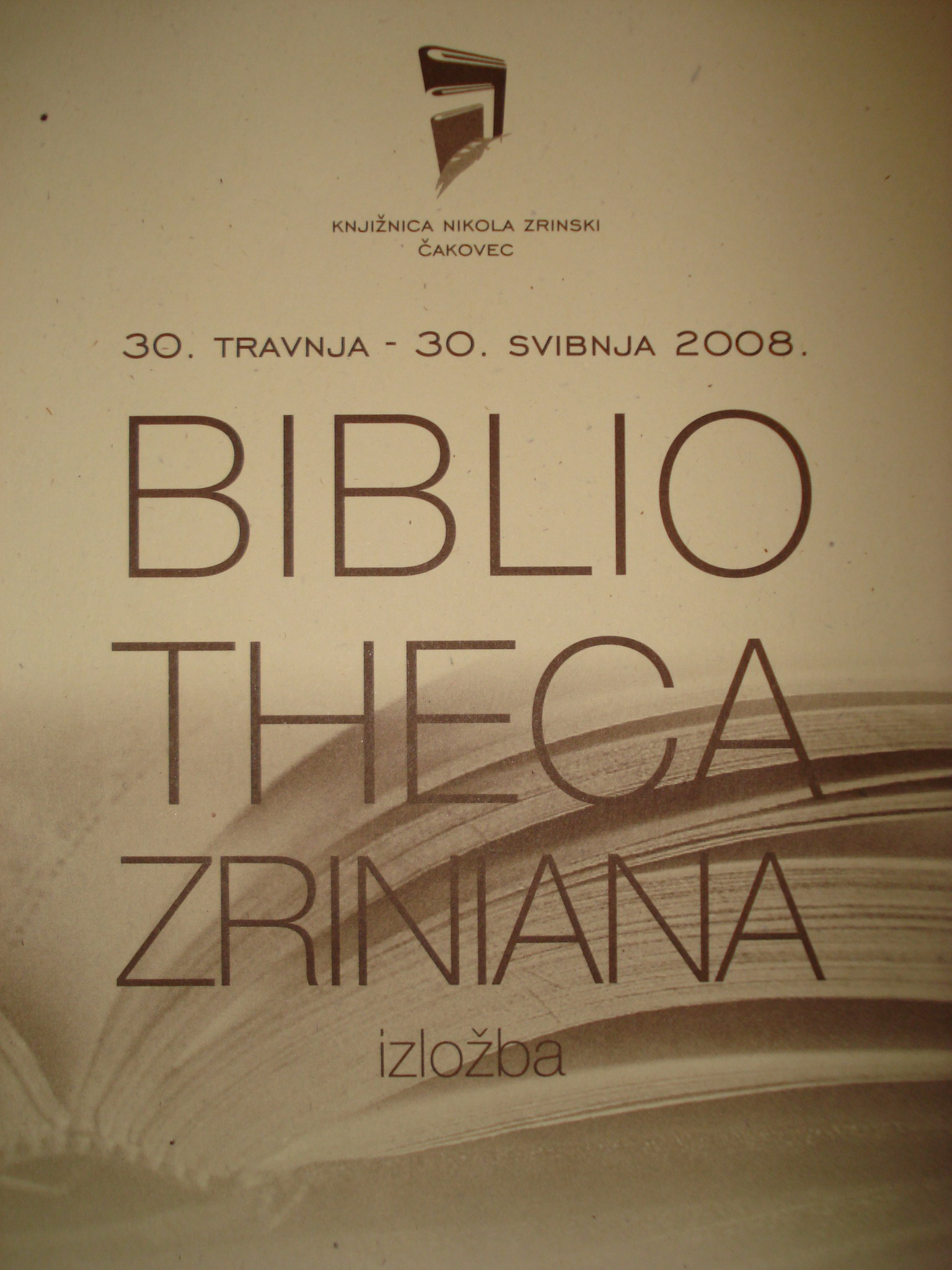 Exhibition catalogue cover of the 17th-century "Bibliotheca Zriniana" book collection owned by Nikola Zrinski (1620-1664), Ban (Viceroy) of Croatia, in his Čakovec Castle (Croatia)